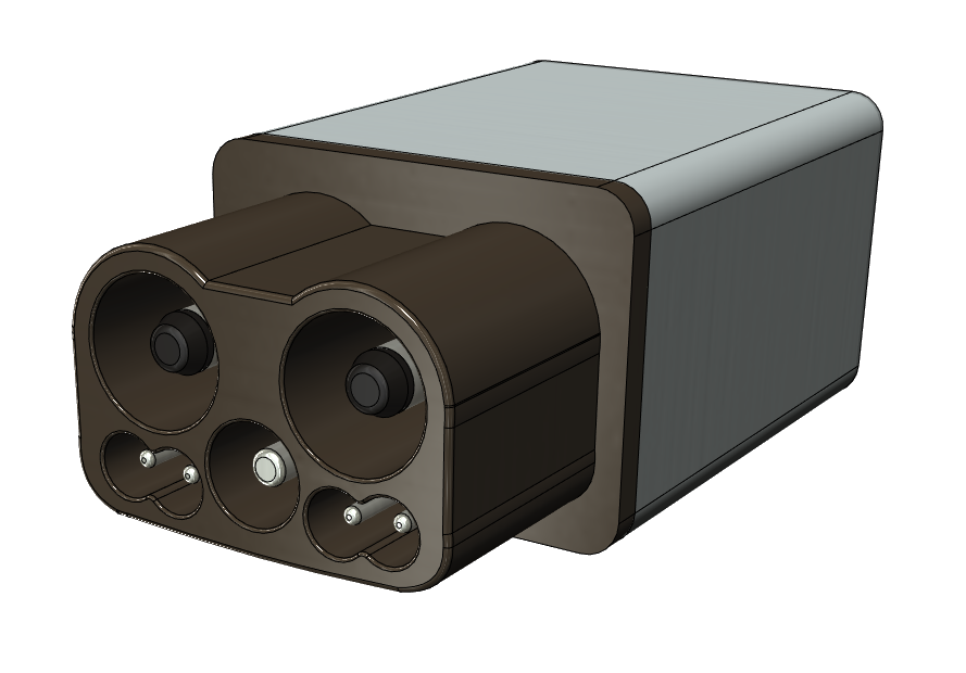 Depiction of the "ChaoJi" type CHAdeMO 3.0 connector, not accurate in size. Created as a 3D model from the SVG of the same plug and estimated the length of the plug.